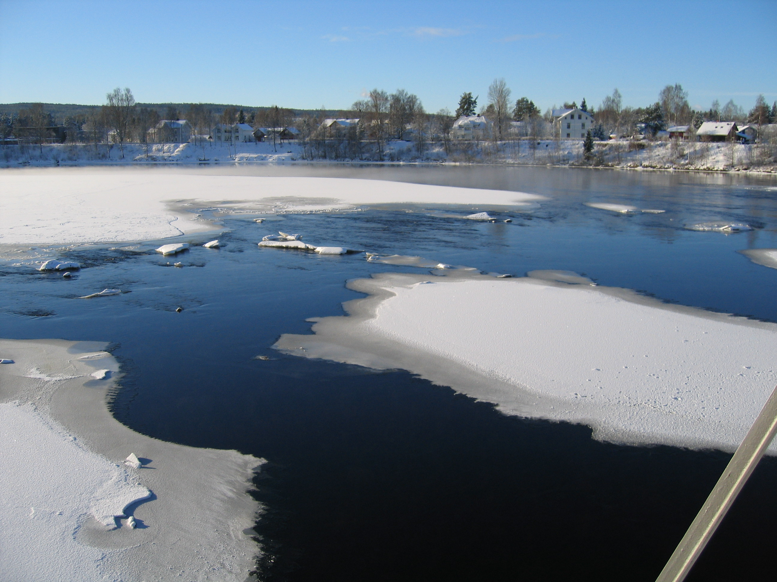 A picture i took of Vestad in Elverum, Norway